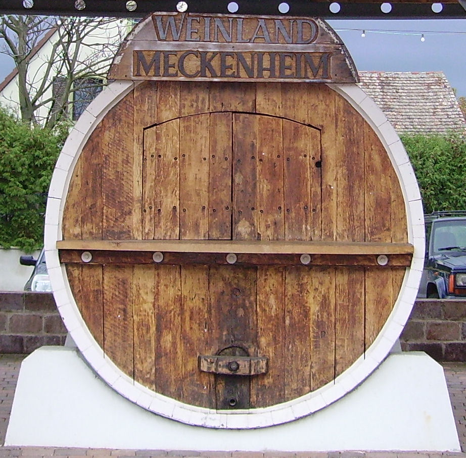 view of Meckenheim (Pfalz), Germany